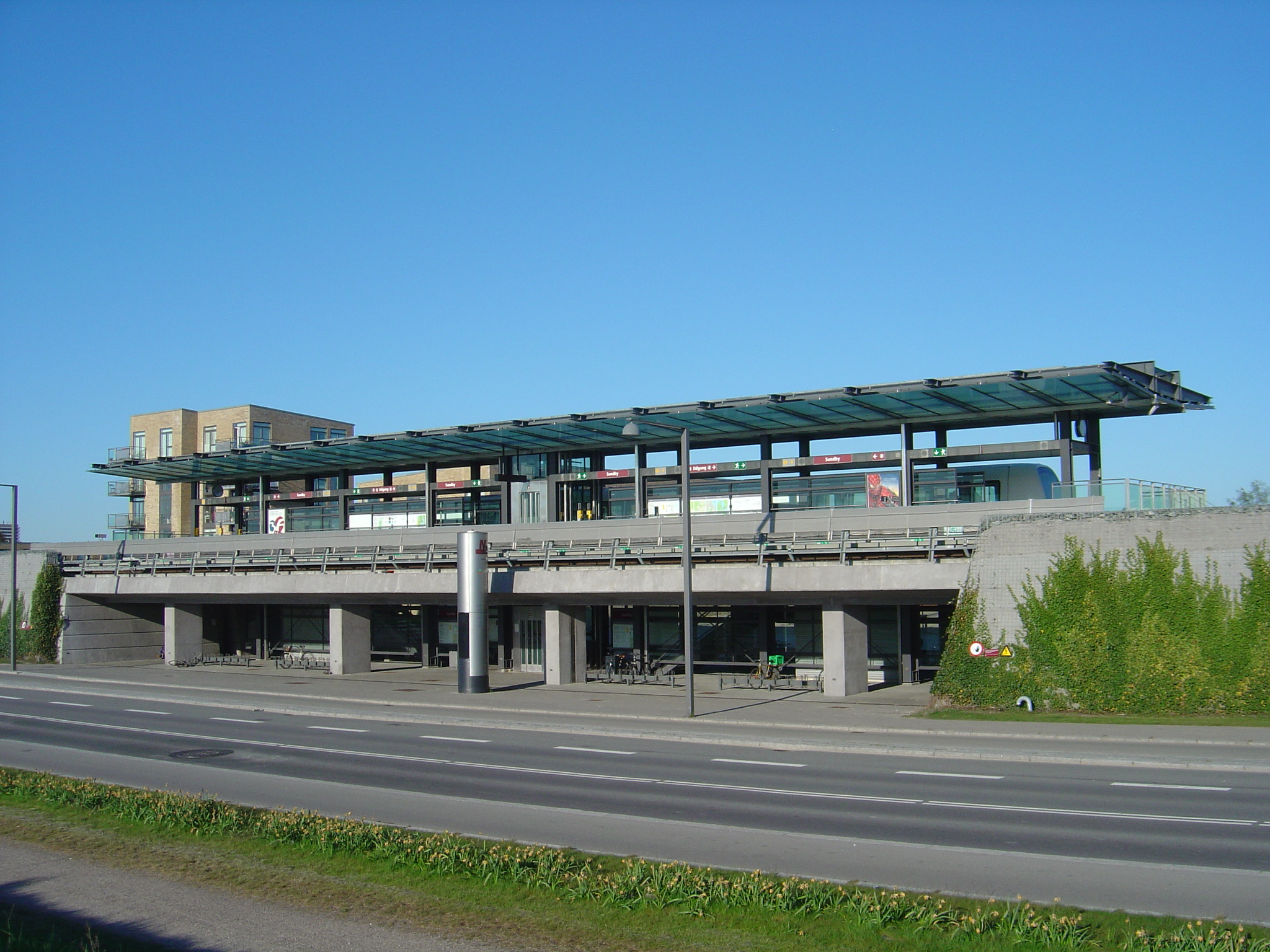 Sundby station - part of Copenhagen Metro on Amager, Copenhagen. Seen from Ørestads Boulevard.